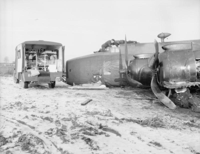 Royal Air Force 1939-1945- Bomber Command This crashed Halifax III at Full Sutton in early January 1945 was the centrepiece of a posed sequence illustrating the work of WAAF nursing orderlies. Corporal Dennett and Aircraftwoman Agnes Hall, both aged 23, attend to an 'injured' crew member as other ground personnel pose by the pilot's escape hatch.